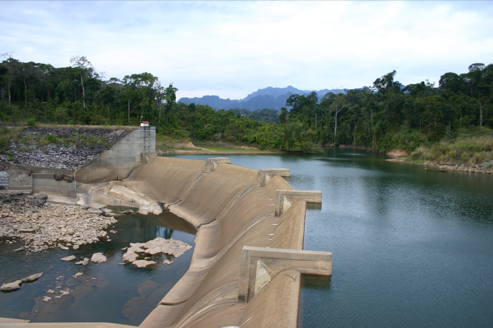 Theun Hinboun Dam Wall, Central Southern Laos. Photographer: Mr Laurence McGrath, uploaded under GFDL license by copyright holder Laurence McGrath for Wikipedia. Image taken January '05 in Laos.